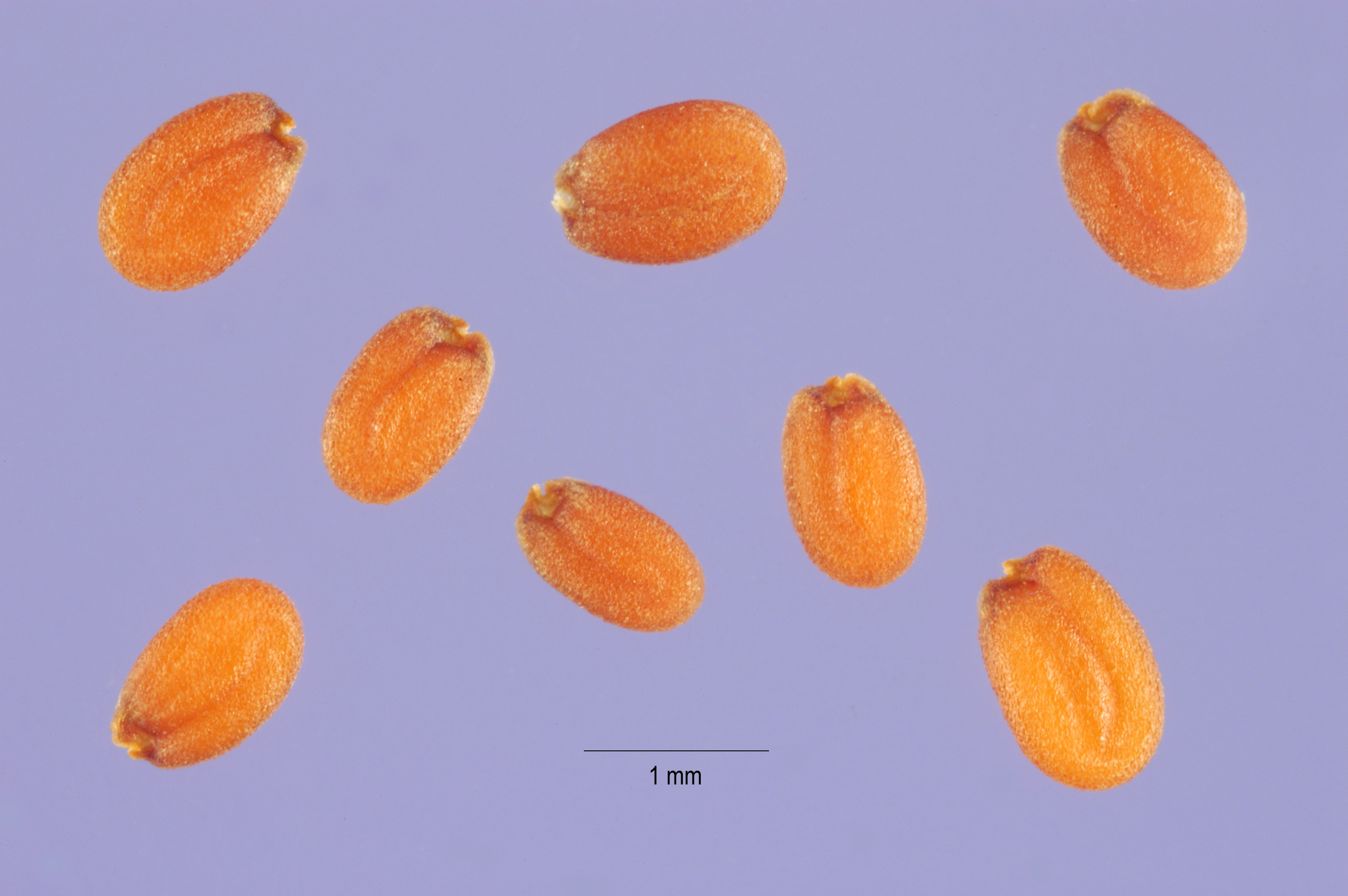 Lepidium latifolium seeds